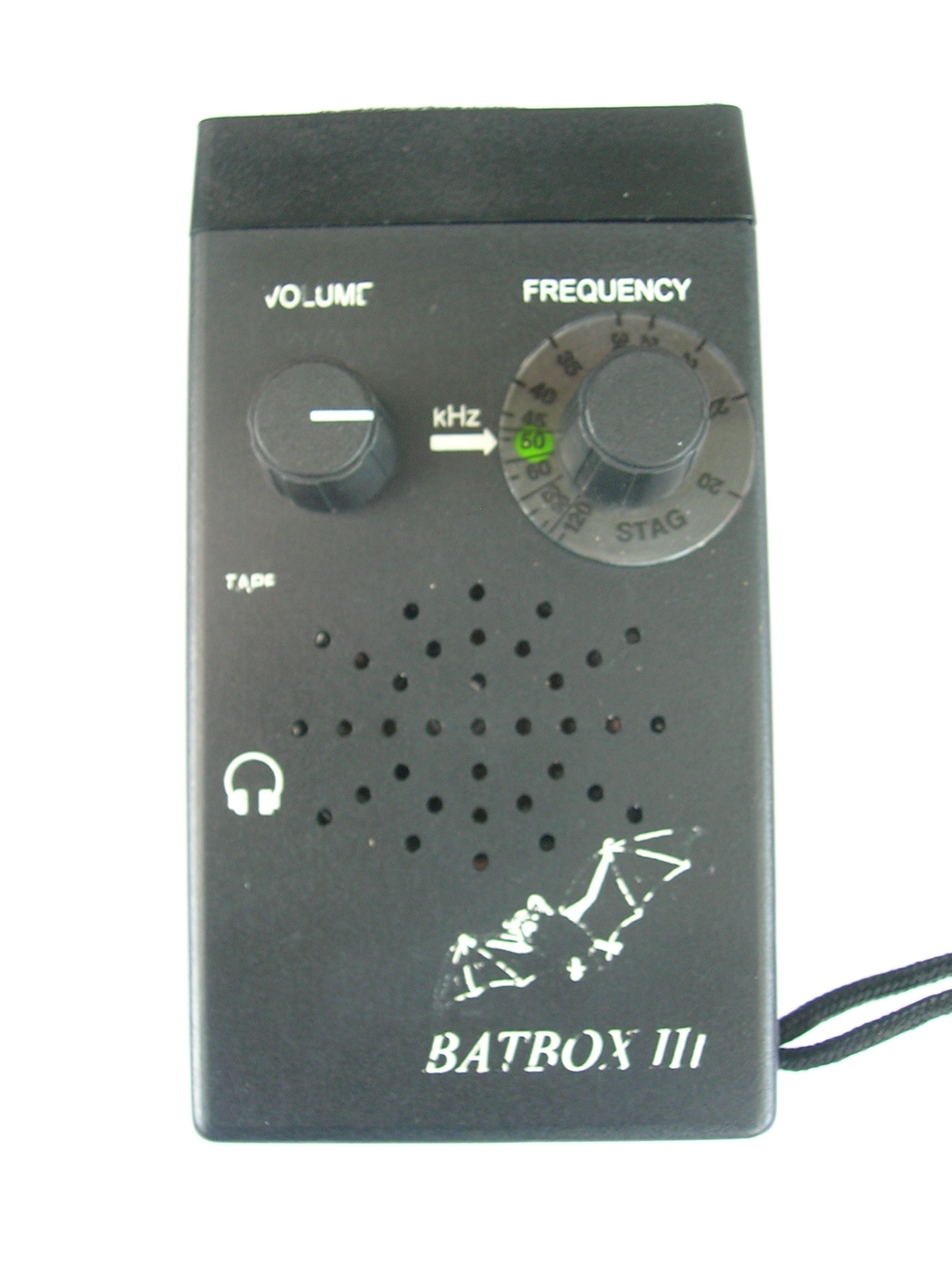 A typical Bat Detector